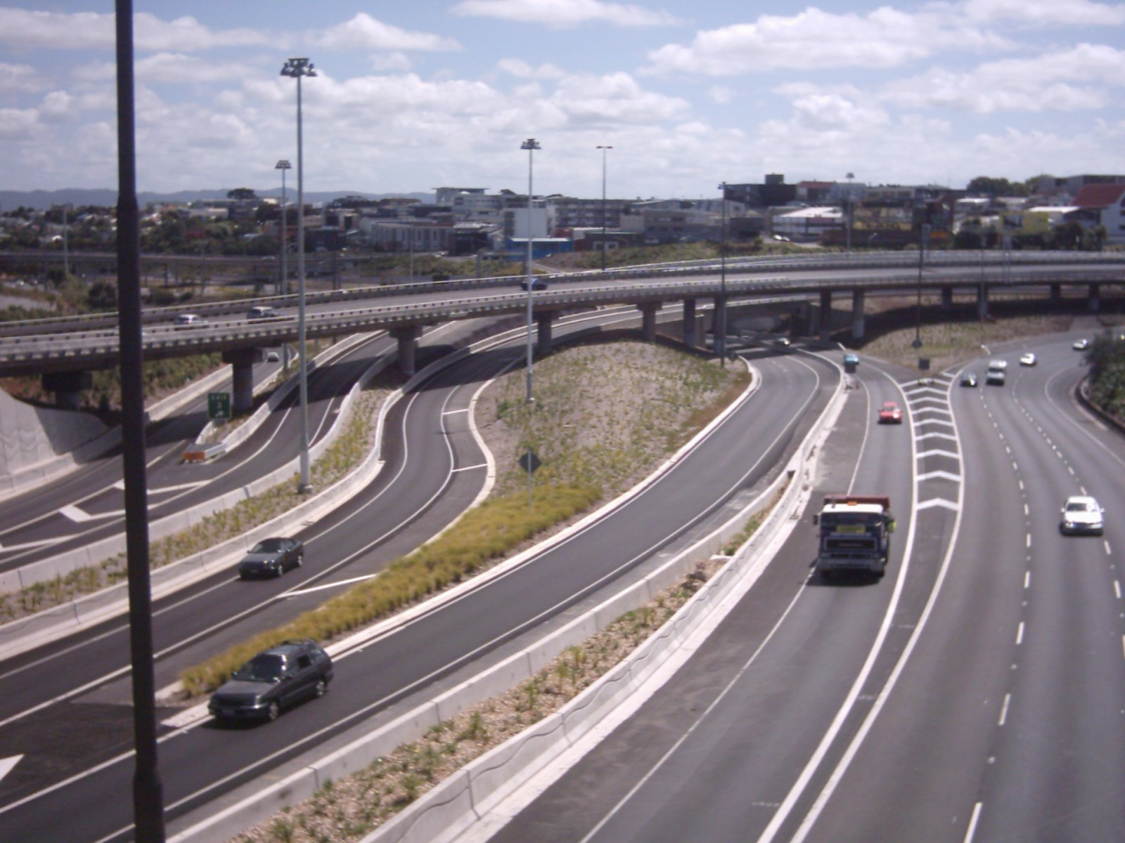 The Central Motorway Junction (CMJ) (also called 'Spaghetti Junction') in Auckland City, New Zealand, as seen from the Upper Queen Street bridge. Landscaping still growing in.